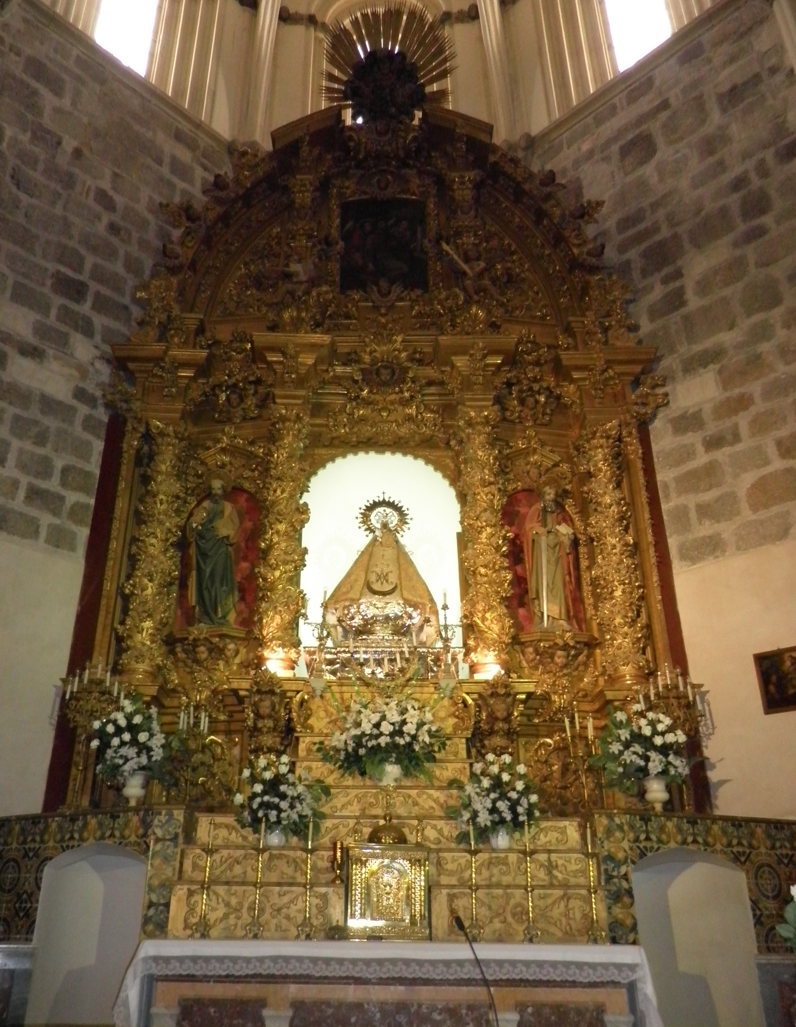 Altarpiece of church of Santa María la Real de Nieva, Segovia province, Spain.